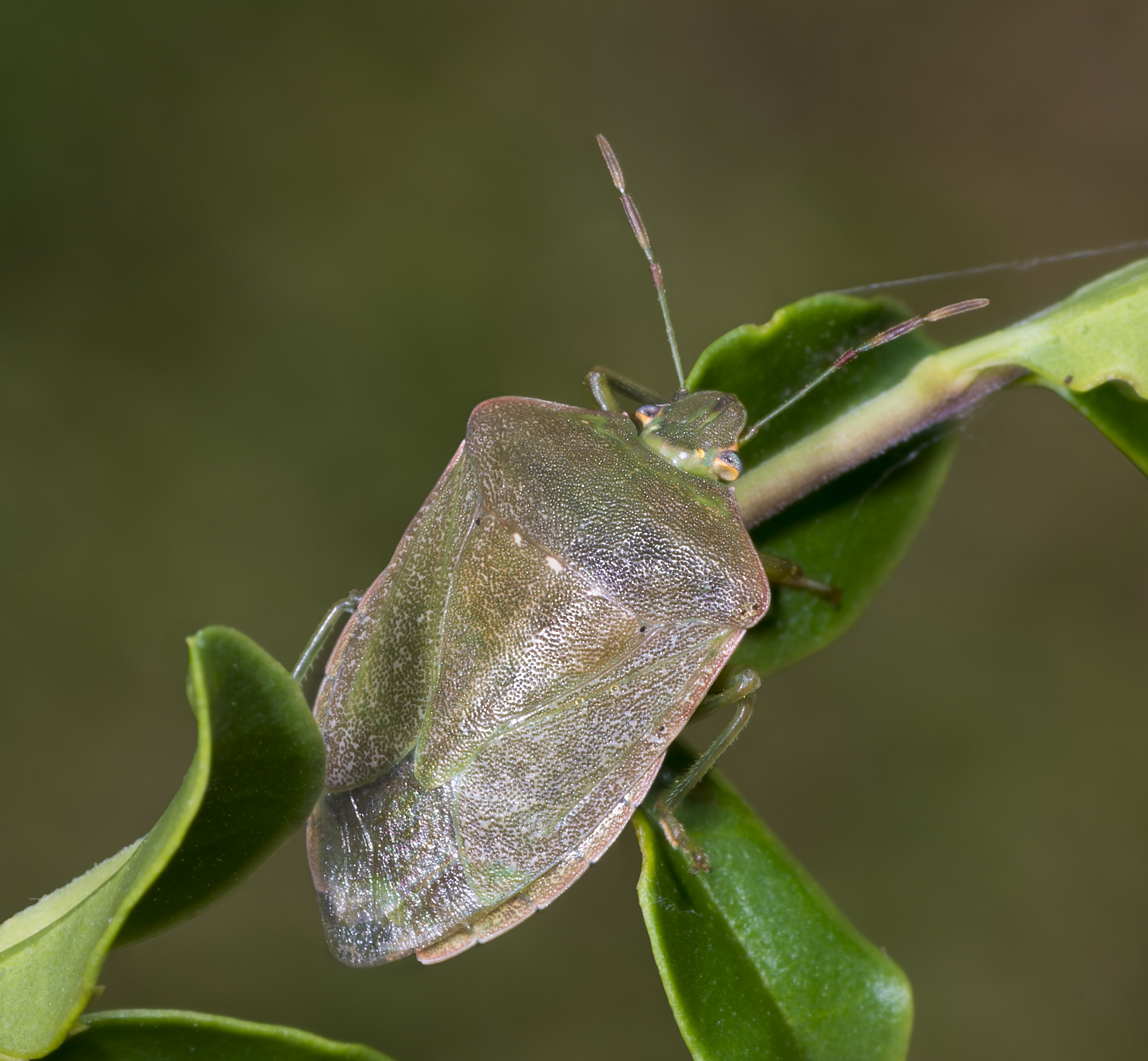 Southern green stink bug, brown winter form.